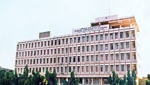 Ghmc headoffice